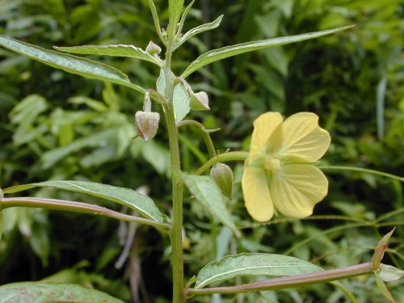 Ludwigia octovalvis (flower and buds). Location: Maui, Wahinepee